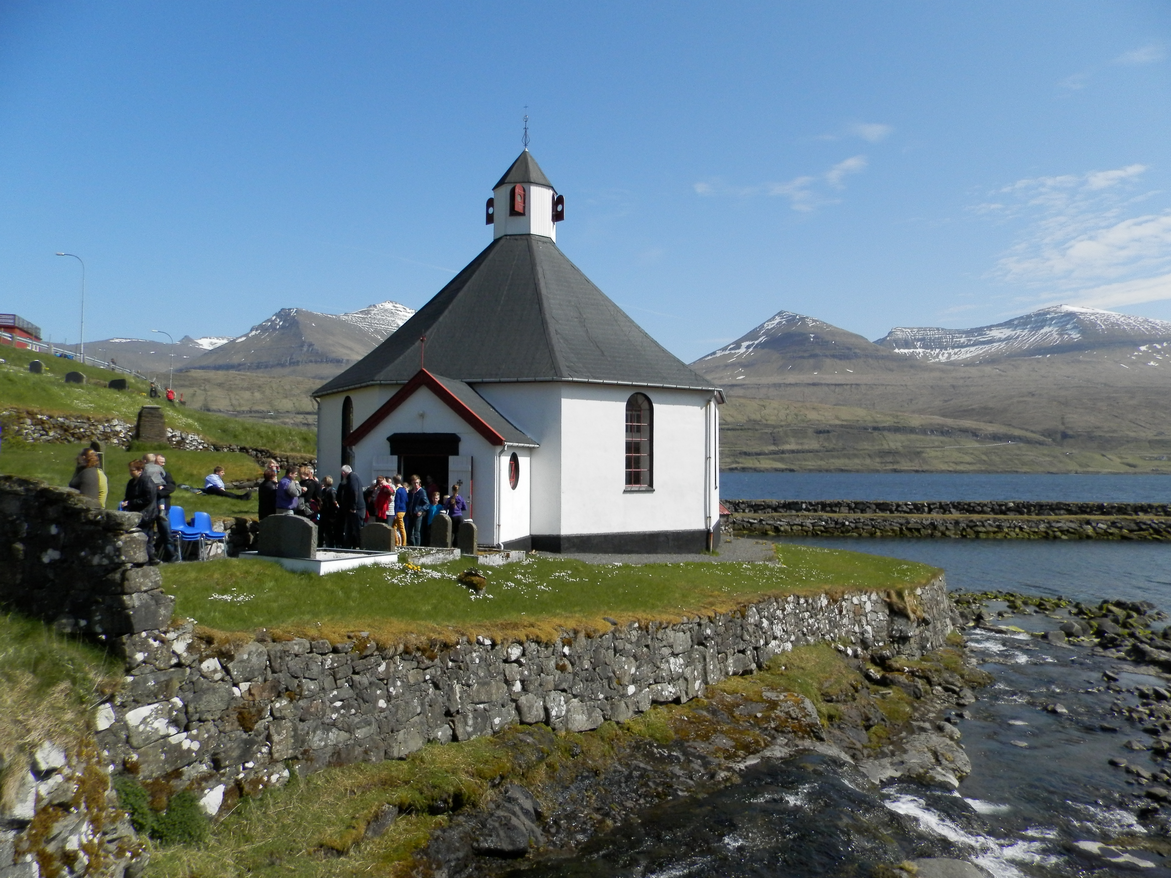 Haldarsvík is a village in the northern part of Streymoy, Faroe Islands. This photo was taken on 19 May 2013. Haldarsvík church was built in 1856 and rebuilt in 1932.